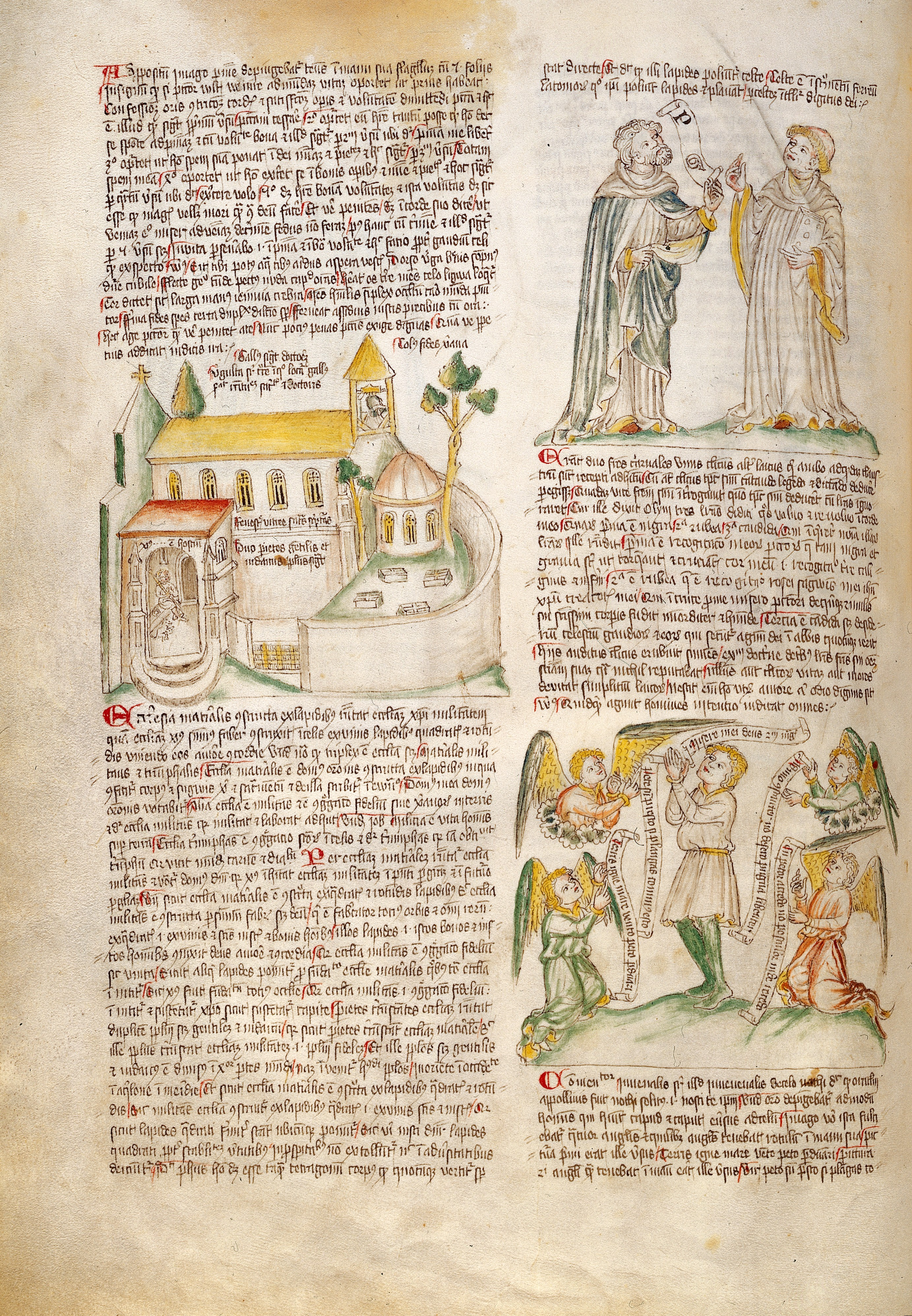 Treatise on the Church. A church with a bell tower and tall windows, Christ can be seen seated, with a small dog, in the entrance. - A tonsured monk in a cuculla with a lay brother. - A standing man praying and surrounded by four angels Archives & Manuscripts Keywords: apocalypsis; Medieval; Middle Ages